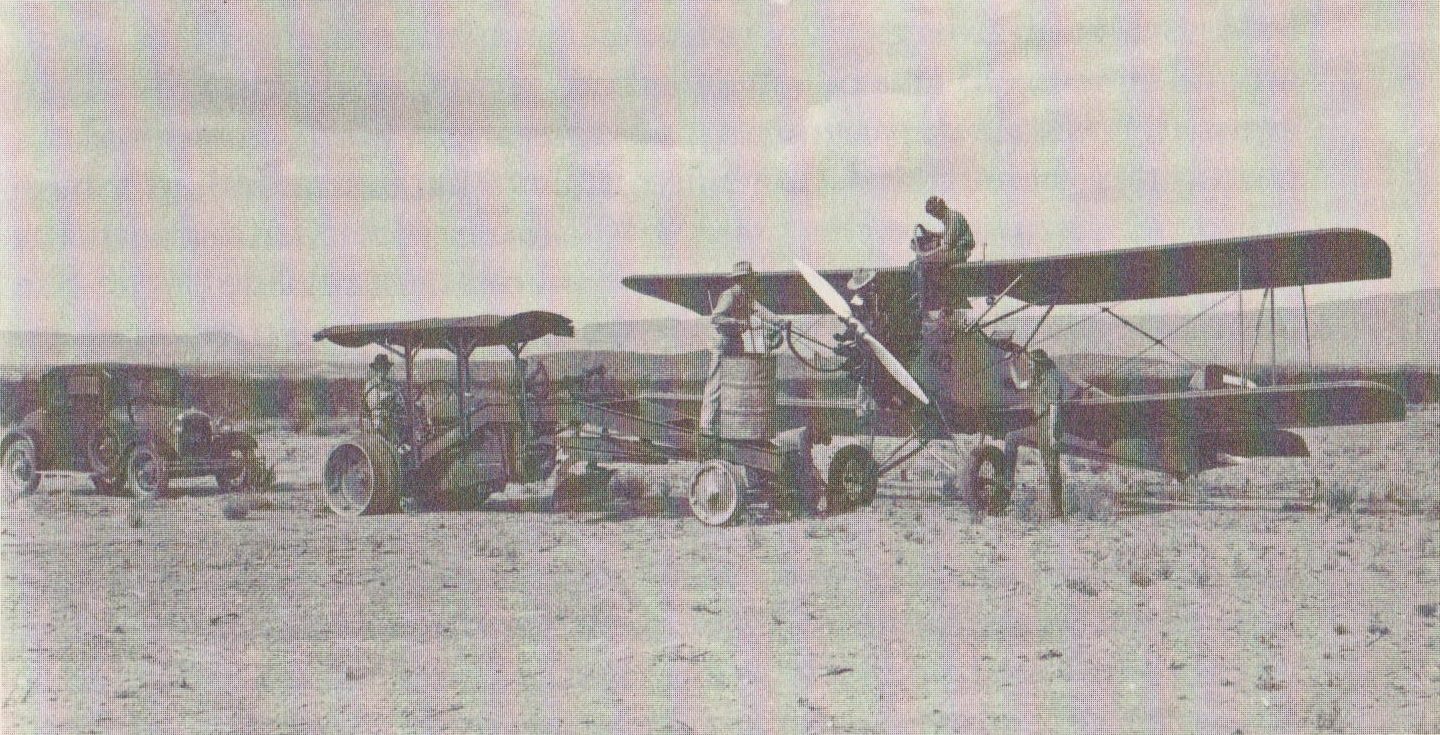 Refueling a US Army Air Corps Consolidated PT-3 aircraft during the "Border Raid Mission", c.1930. Big Bend rancher Elmo Johnson is seen refueling the aircraft from a fifty-gallon drum with Lt. Charles W. Deerwester, who is on top of the plane. Lt. John W. Egan observes from below. Elmo Johnson's father, Robert, is seated on the runway maintainer. Lee Rackley, one of the Johnson's employees, is standing on the wing of the plane, behind the engine. Scan from page 87 "Wings Over the Mexican Border" (1984) by Kenneth Baxter Ragsdale.